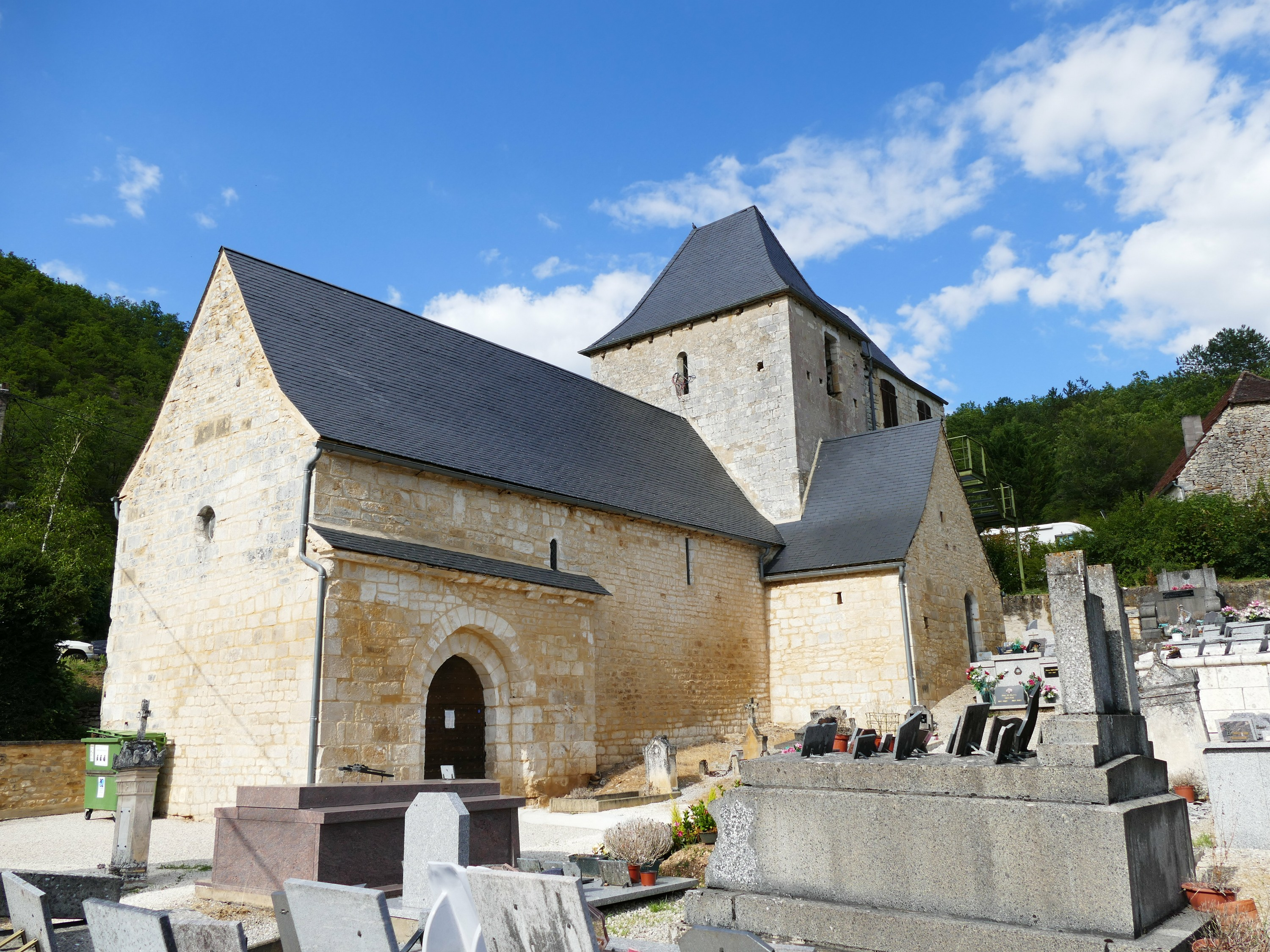 Saint-Étienne's church in Orliaguet (Dordogne, Aquitaine, France).